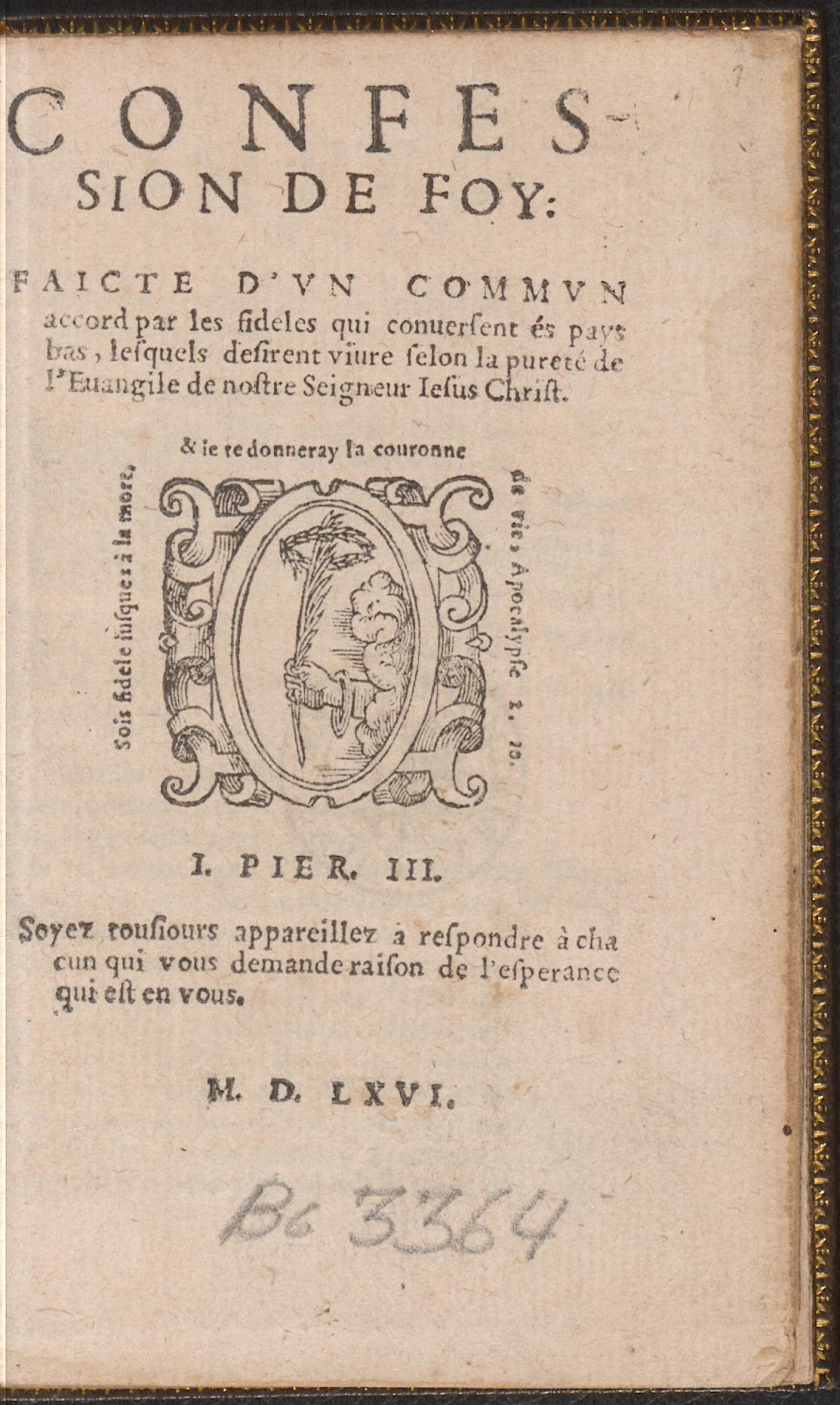 Title page for Belgic Confession published in 1566